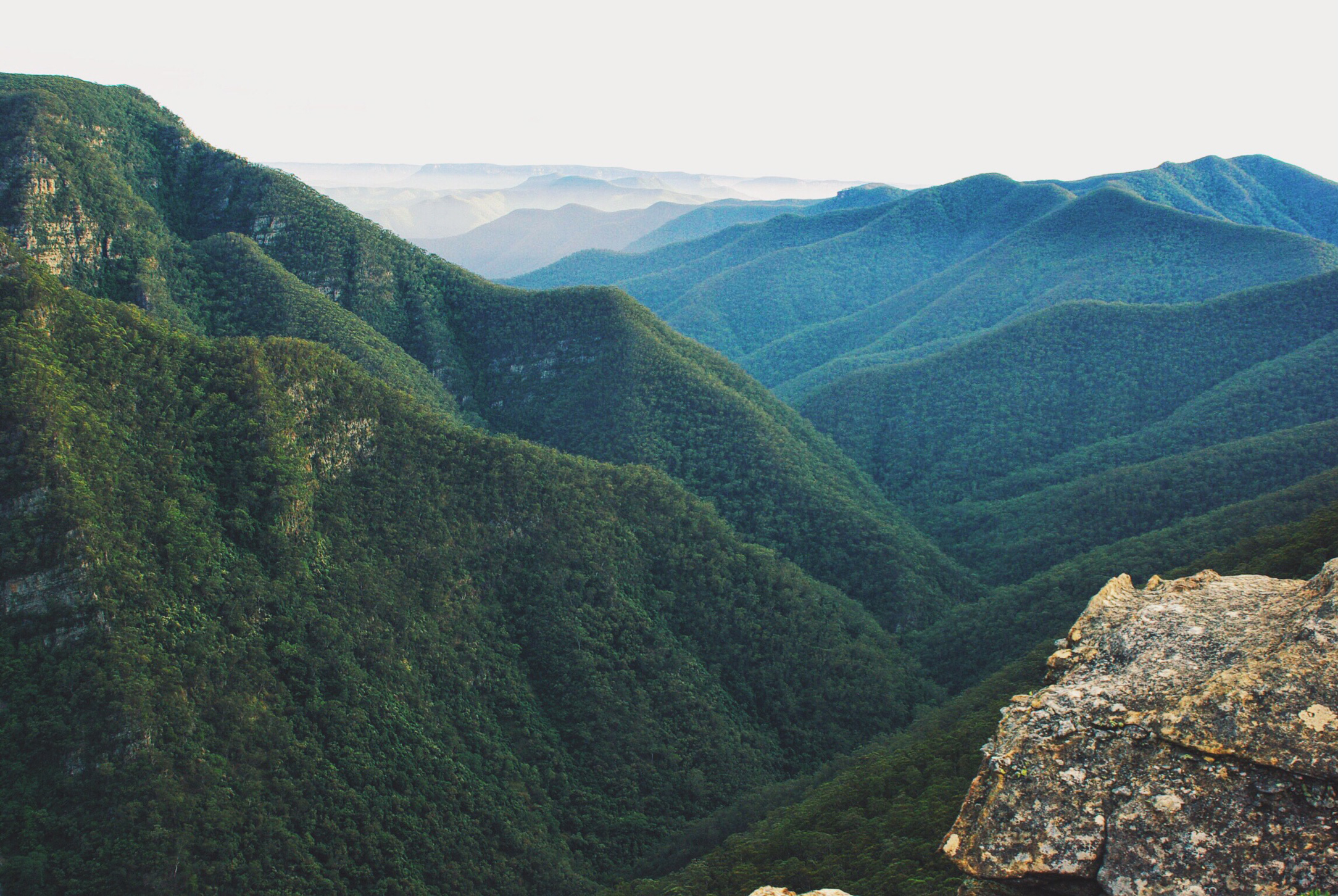 The scenic mountains of Kanangra-Boyd National Park in NSW, Australia